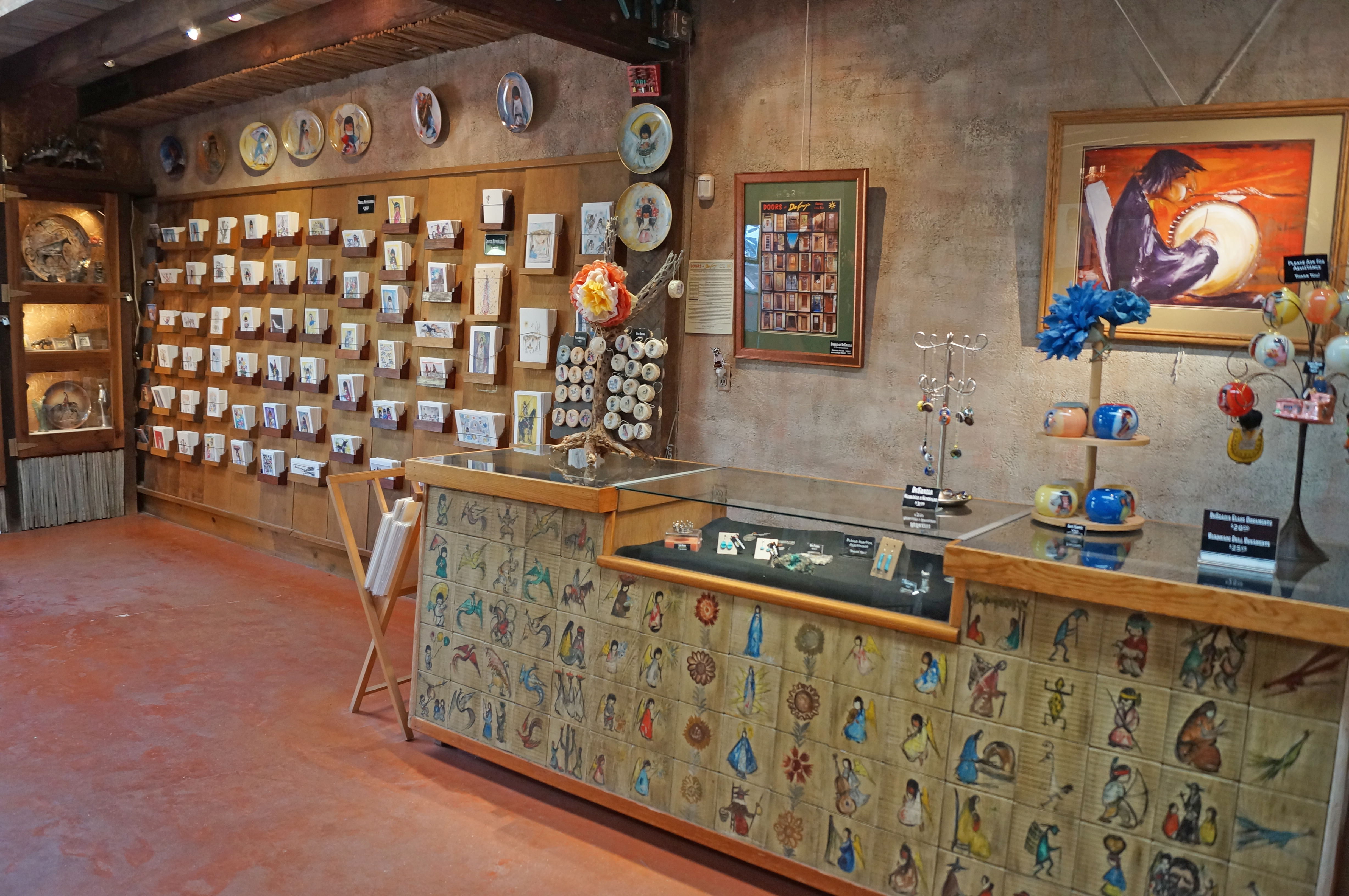 DeGrazia's gift shop located at his Gallery In the Sun. Shop online at